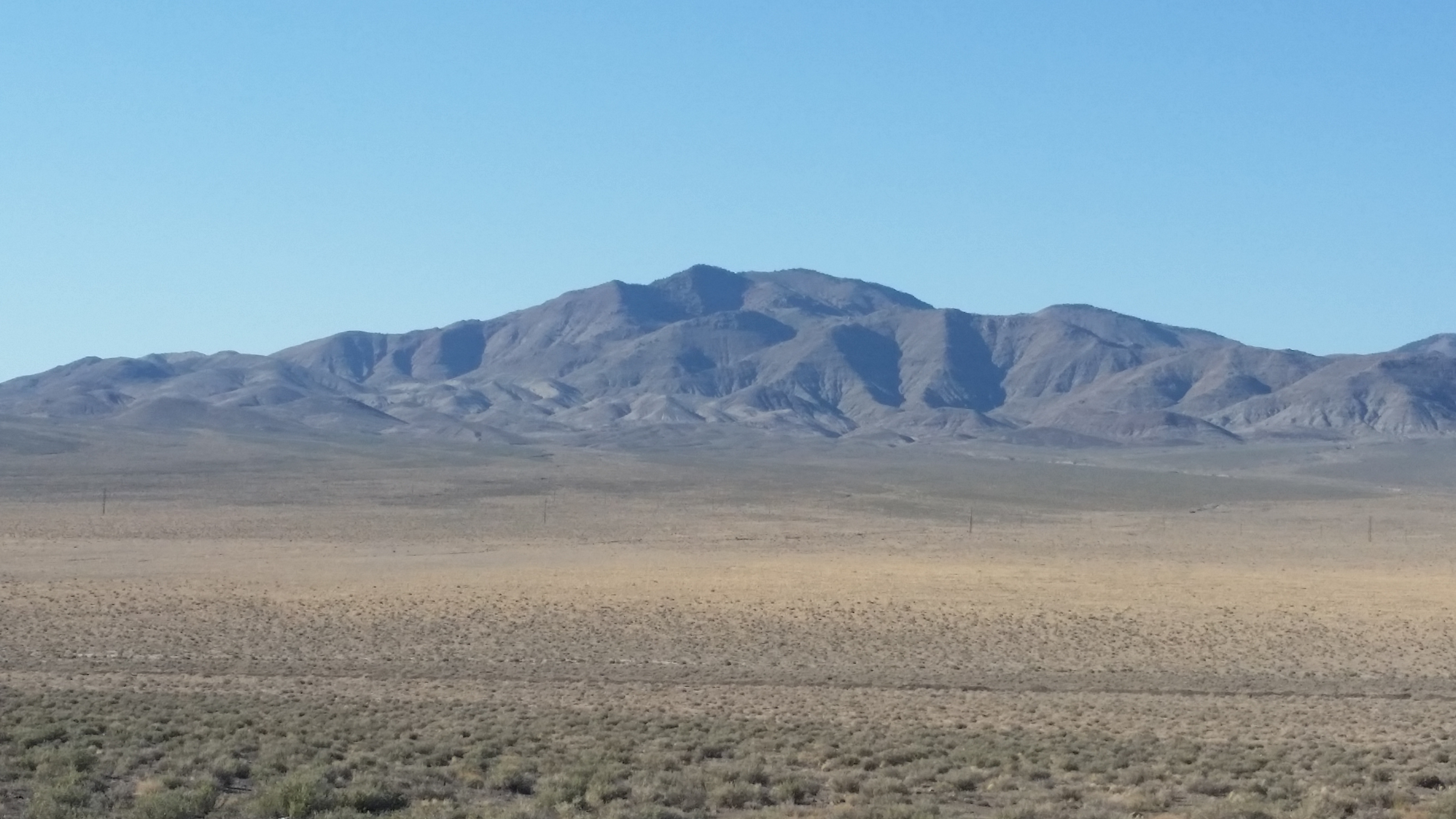 Mount Ferguson, Luning, NV, USA